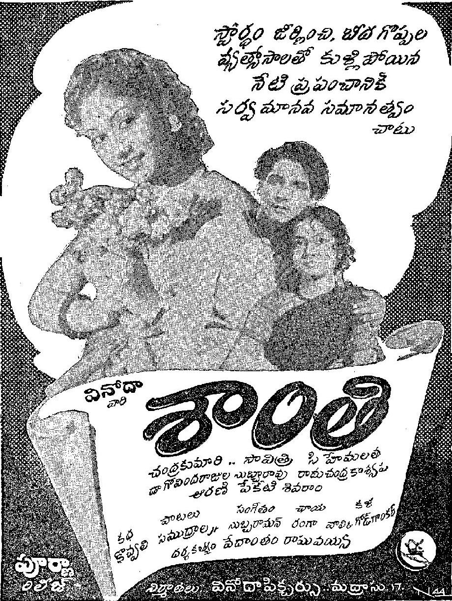 This is the advertisement of Santhi 1952 Telugu Film